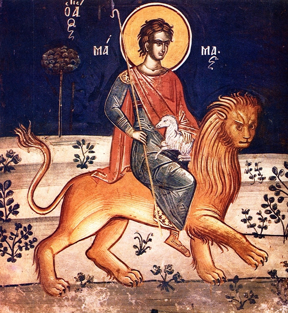 Docheiariou Monastery, Saint Mamas Fresco, 16th century